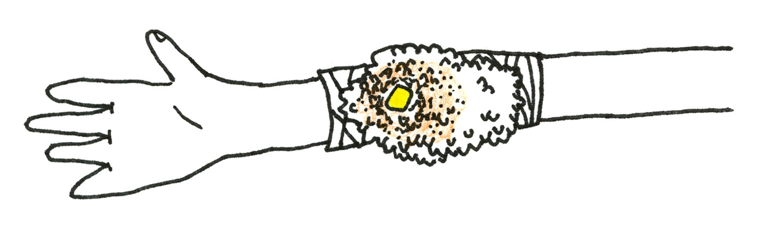 Poultice easily illustrated